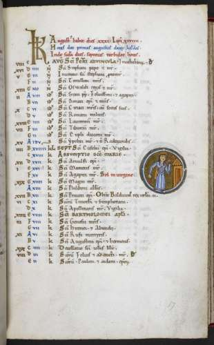 Melisende Psalter f17r, calendar for August